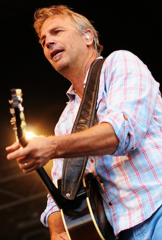 Kevin Costner playing at the Cisco Ottawa Bluesfest in July 2010.